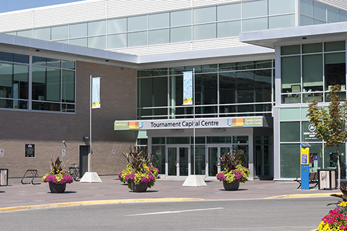 Entrance to the Tournament Capital Centre in Kamloops, B.C., Canada